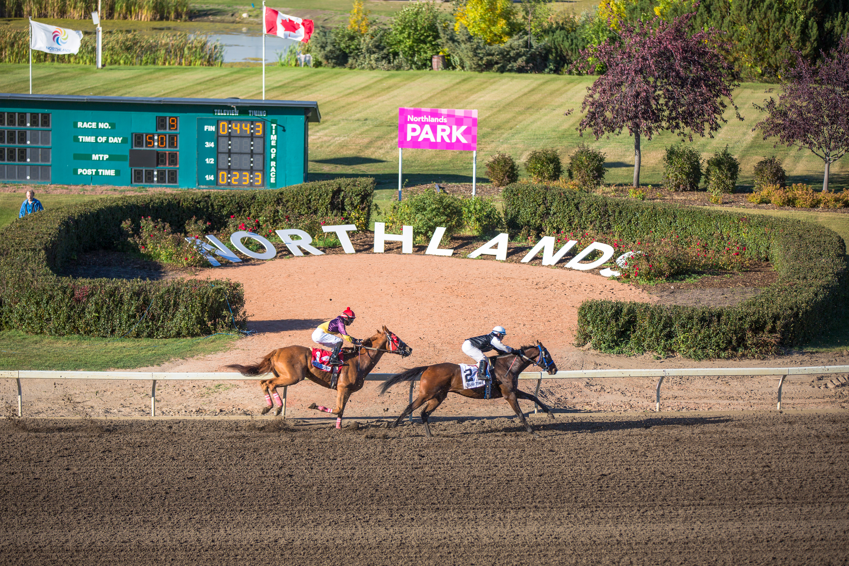 Alberta Breeders’ Fall Classic 2014 - Horse Racing